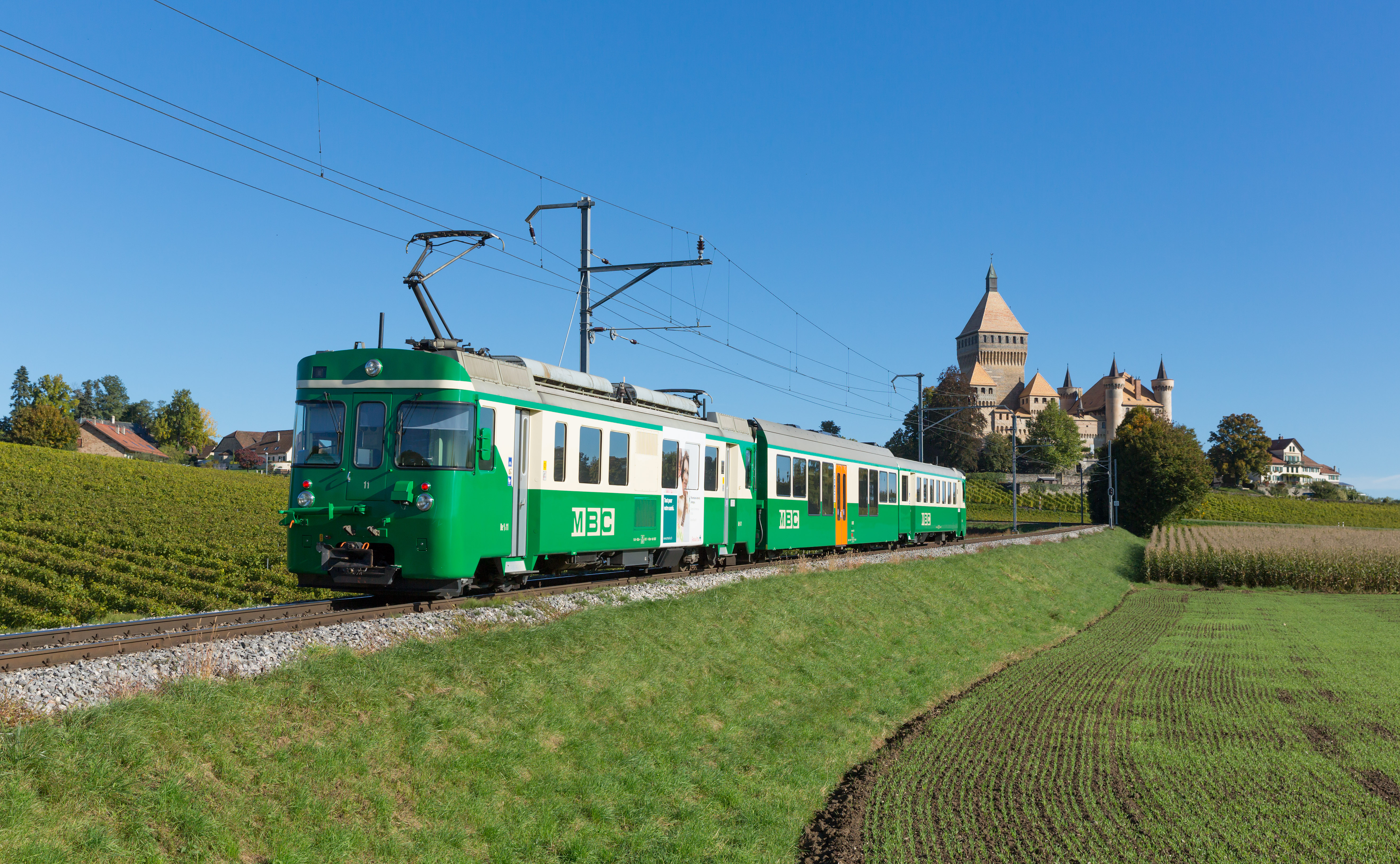 A BAM/MBC Be 4/4 EMU is pushing its train from Morges to Bière. Picture taken near Vufflens-le-Château, Switzerland.